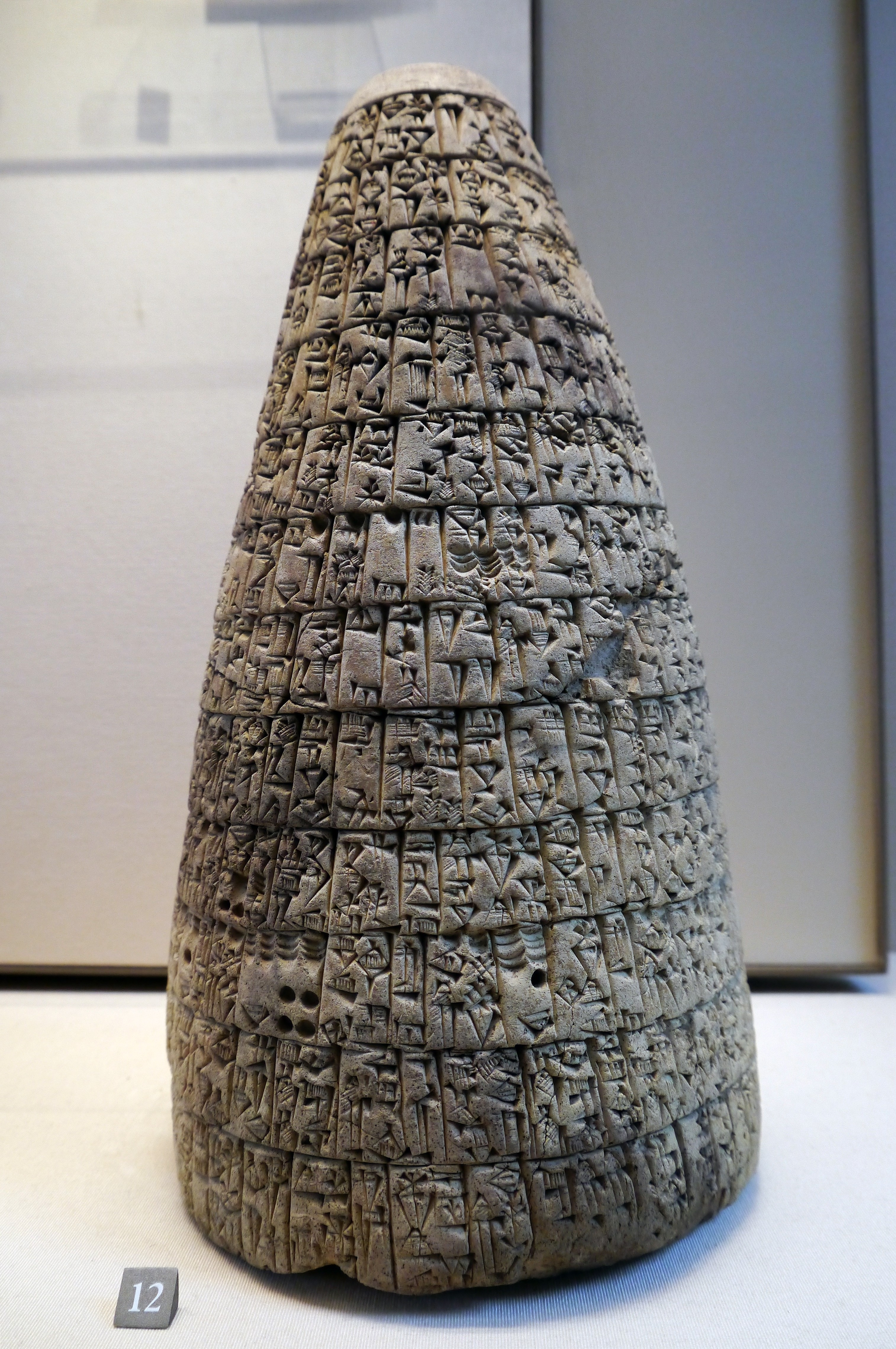 Cone of Urukagina, king of Lagash, detailing his reforms againt abuse of "old days".